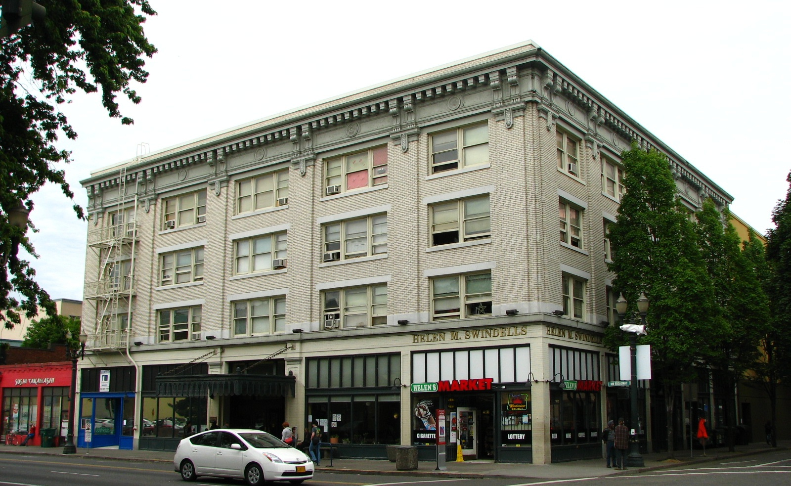 The historic Broadway Hotel (built 1913), located at 10 Northwest Broadway in Portland, Oregon, United States, is listed on the US National Register of Historic Places. It is current in use as a single-room occupancy (SRO) hotel.